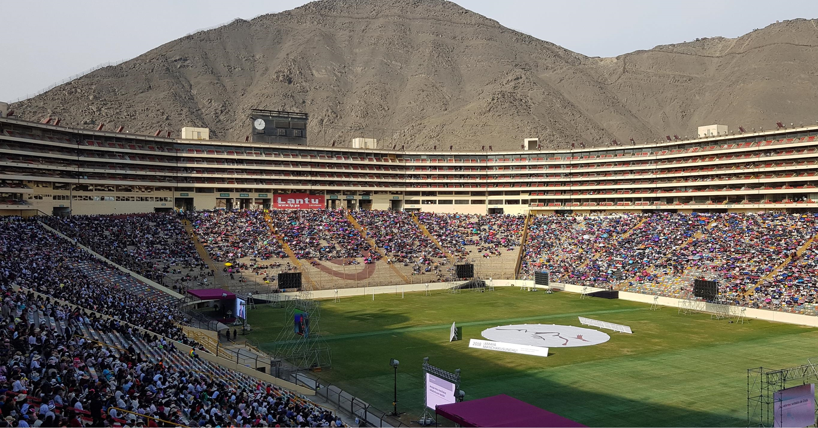 Lima, Peru Special District convention of Jehovah's Witnesses, 2018